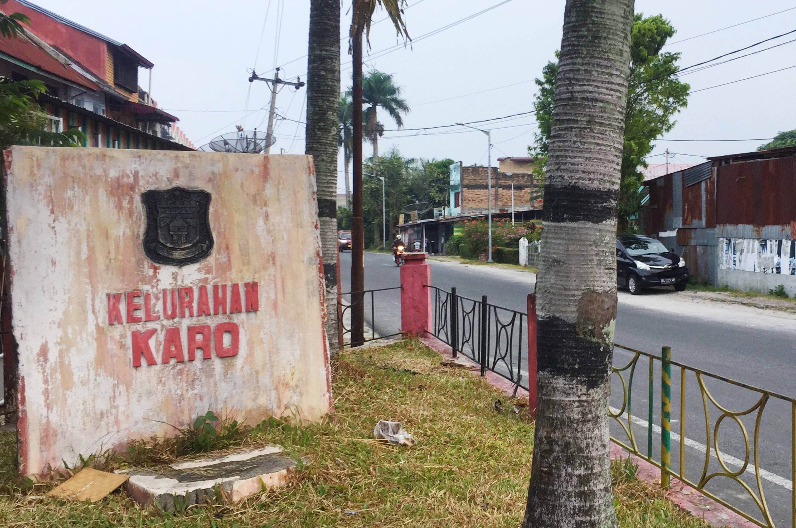 welcome gate to Karo, Siantar Selatan, Pematangsiantar